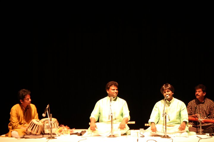 Prasanna borther in Concert